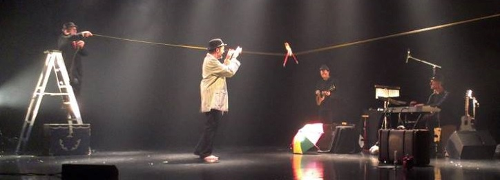 Edgar Bori photographed in Montreal, Quebec, Canada at the Outremont Theatre.